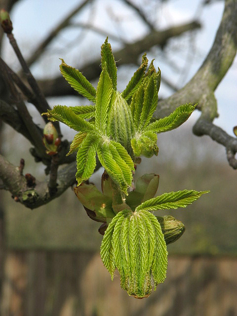 Horse chestnut (Aesculus hippocastanum) In the warm spring sunshine the young leaves have burst the protective shells of their buds. The horse chestnut is a deciduous tree the seeds, leaves, bark, and flowers of which have been used to treat a variety of conditions and diseases. During the two world wars, horse-chestnuts were used as a source of starch.It grows to a height of over 30 metres; in Britain the nuts are used for the popular children's game conkers.